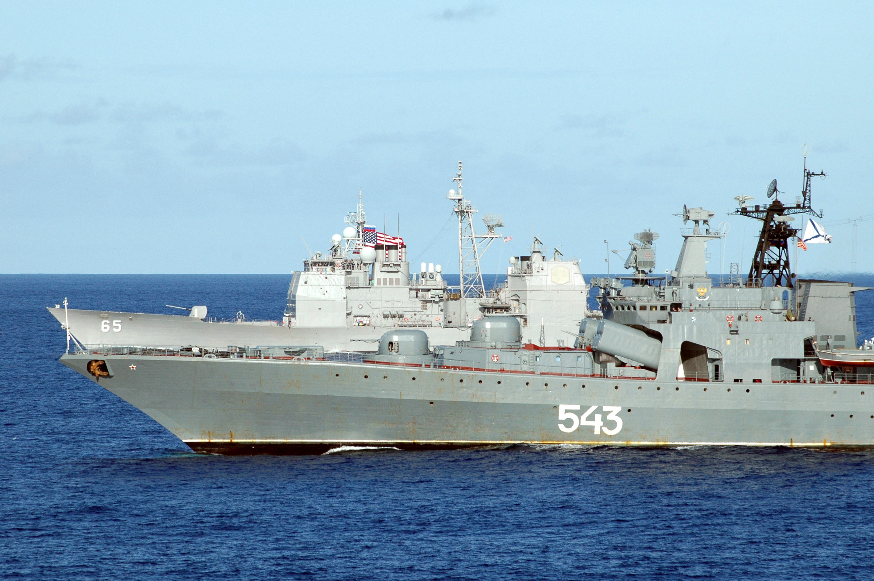 Yellow Sea (March 31, 2006) - The Ticonderoga-class guided-missile cruiser USS Chosin (CG 65) and the Russian Navy Udaloy-class destroyer Marshal Shaposhnikov (DDGHM 543) sail in formation during a joint Russian-U.S. Navy exercise. The Russian Federation Navy made the first visit of a Russian Navy vessel to the U.S. territory of Guam in order to participate in a joint humanitarian assistance and disaster relief exercise. U.S. Navy photo by Photographer's Mate 2nd Class Nathanael T. Miller (RELEASED)